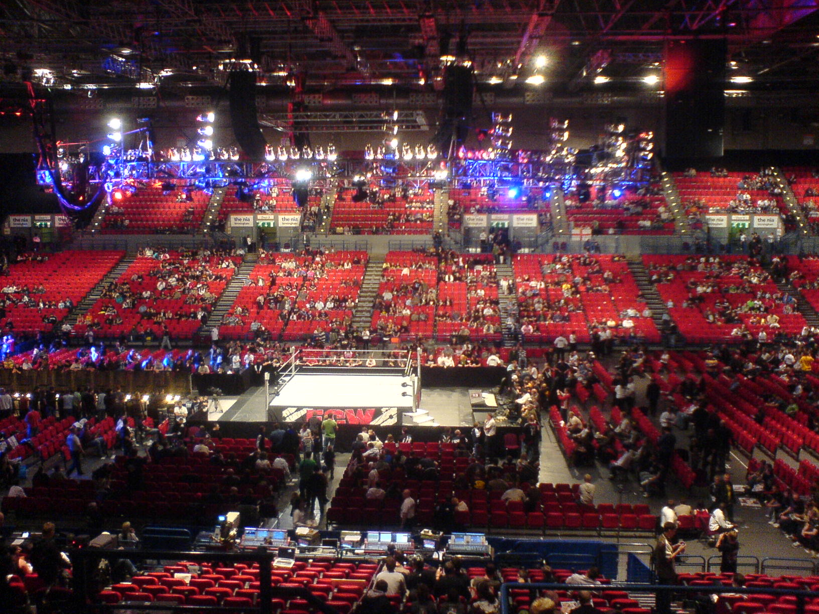 ECW on the 16th October 2007, for the ECW tapings at the NIA, Birmingham UK.